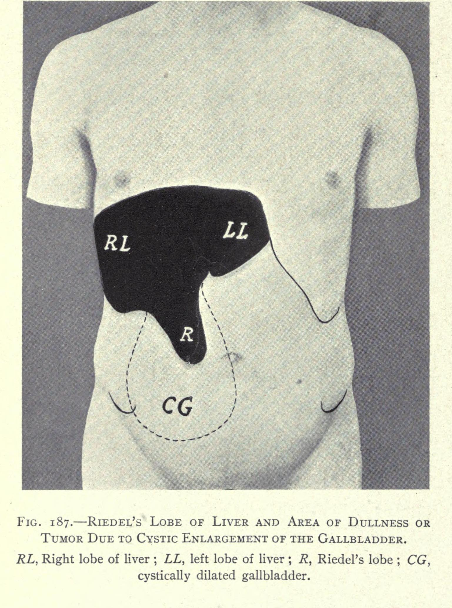 see image